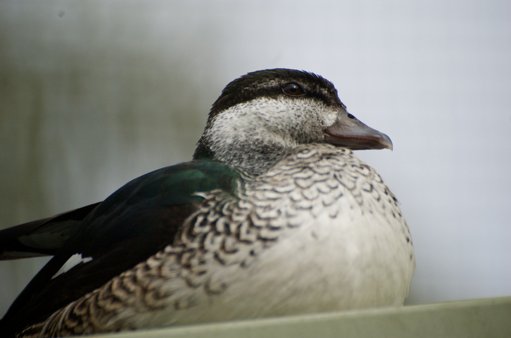 Green Pygmy-goose, Perth Zoo, 2010.